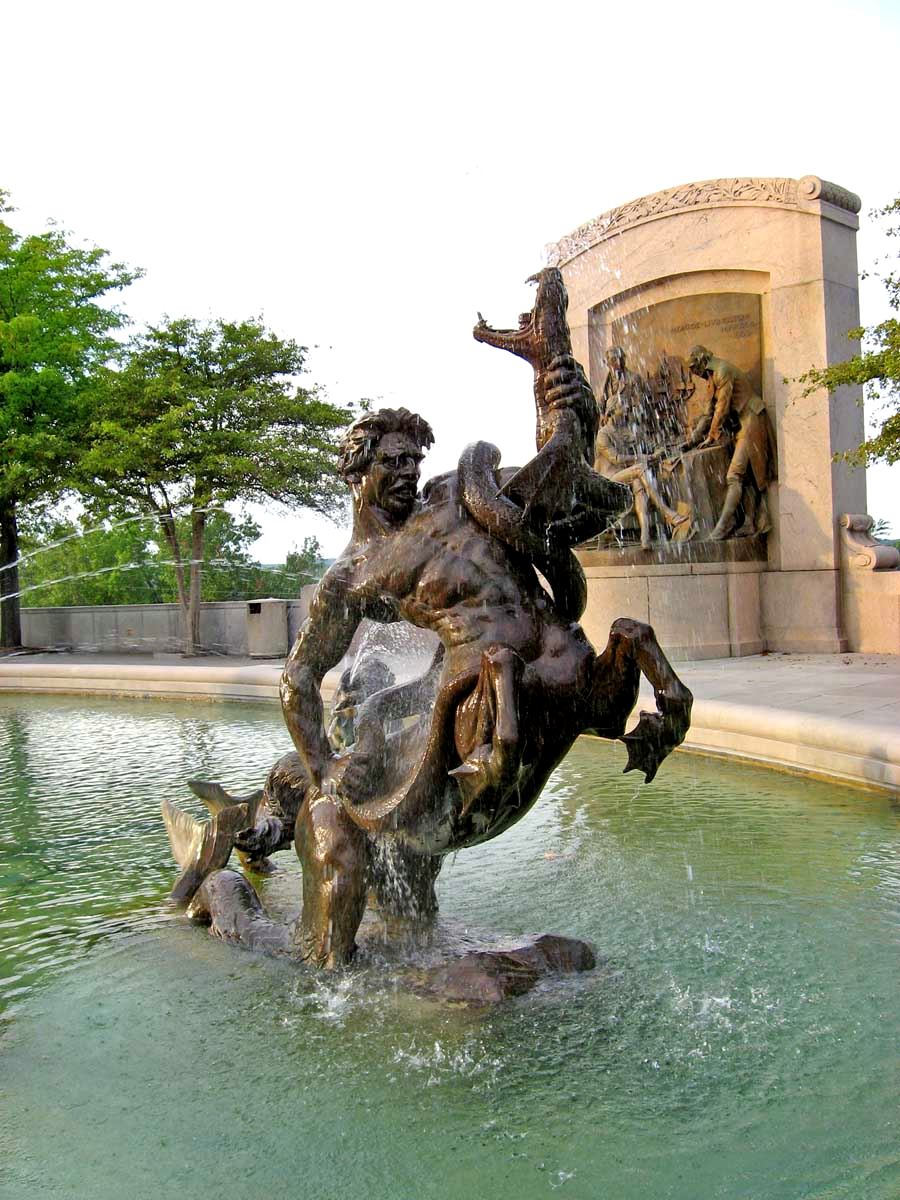 Ichthyocentaurs from the Fountain of the Centaurs by AA Weinman, Jefferson City MO USA, 1927